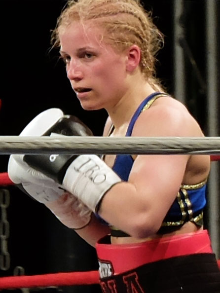 Boxer Tina Rupprecht in her fight for the IBO Intercontinental Championship against Luisana Bolívar.